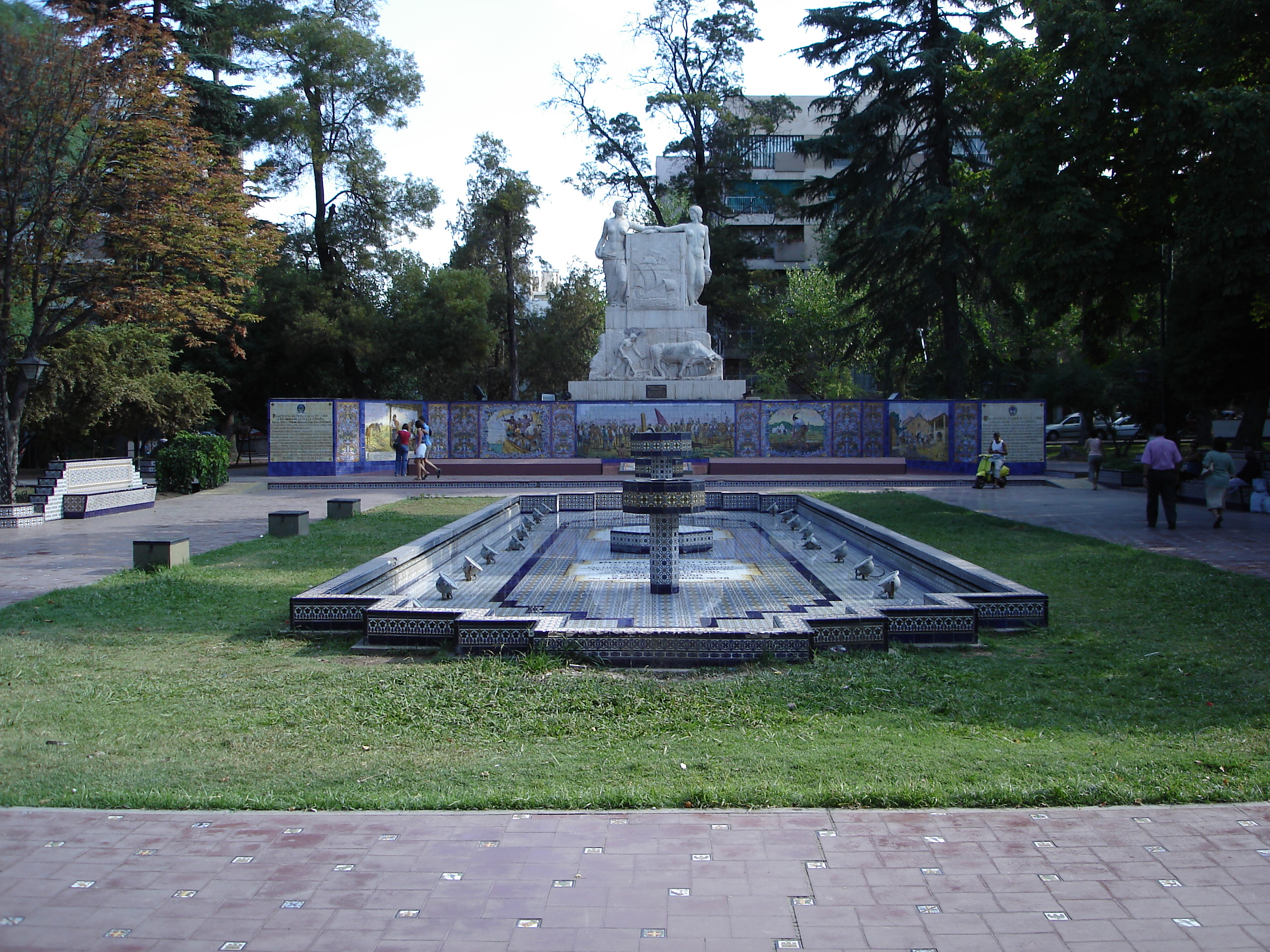 The main font in Plaza Independencia, Mendoza, Argentina